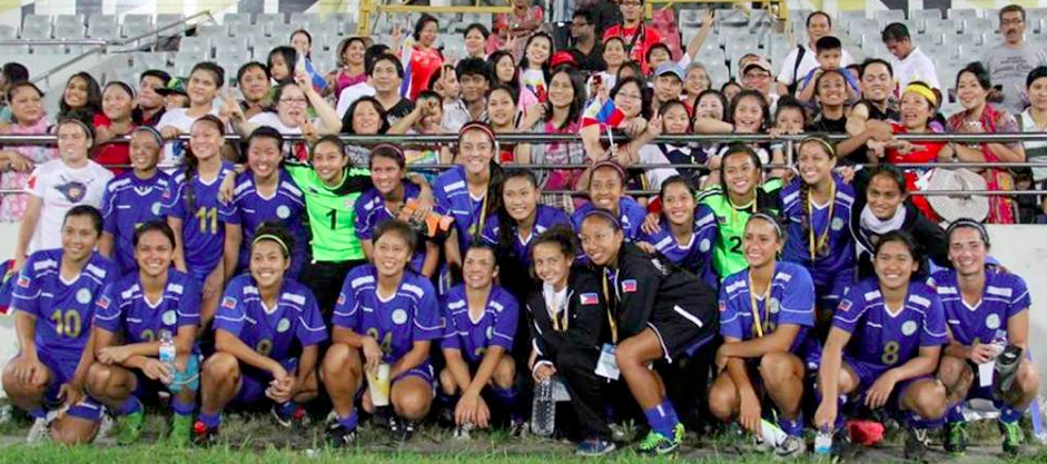 The Philippine women’s football team after a victorious match against Bangladesh on May 25, 2013 at the Bangabandhu National Stadium.